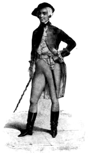 Pierre Lafont as the chevalier de Saint Georges in Mélésville's play. After a drawing by A. Lacauchie 1841. Image from Nils Personne: Svenska Teatern VIII (1927).